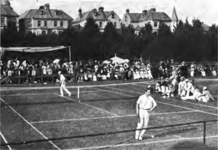 Final at the 1890 tennis tournament at Eastbourne. Arthur Ziffo vs. James Baldwin